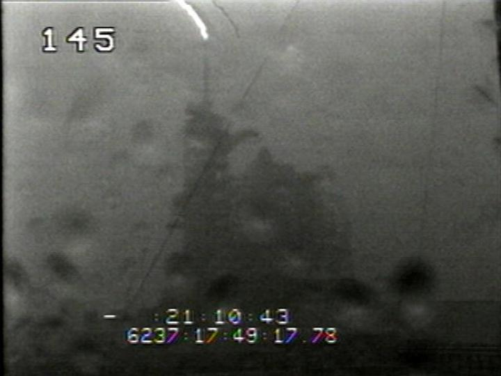 KENNEDY SPACE CENTER, FLA. – A lightning strike occurred at the lightning protection system of Launch Pad 39B on Fri., August 25, 2006, at 1:49:17 p.m. (EST). The lightning strike caused the mission management team to scrub the launch of mission STS-115 for 24 hours in order to review all electrical systems on the space shuttle and the launch pad ground support equipment.